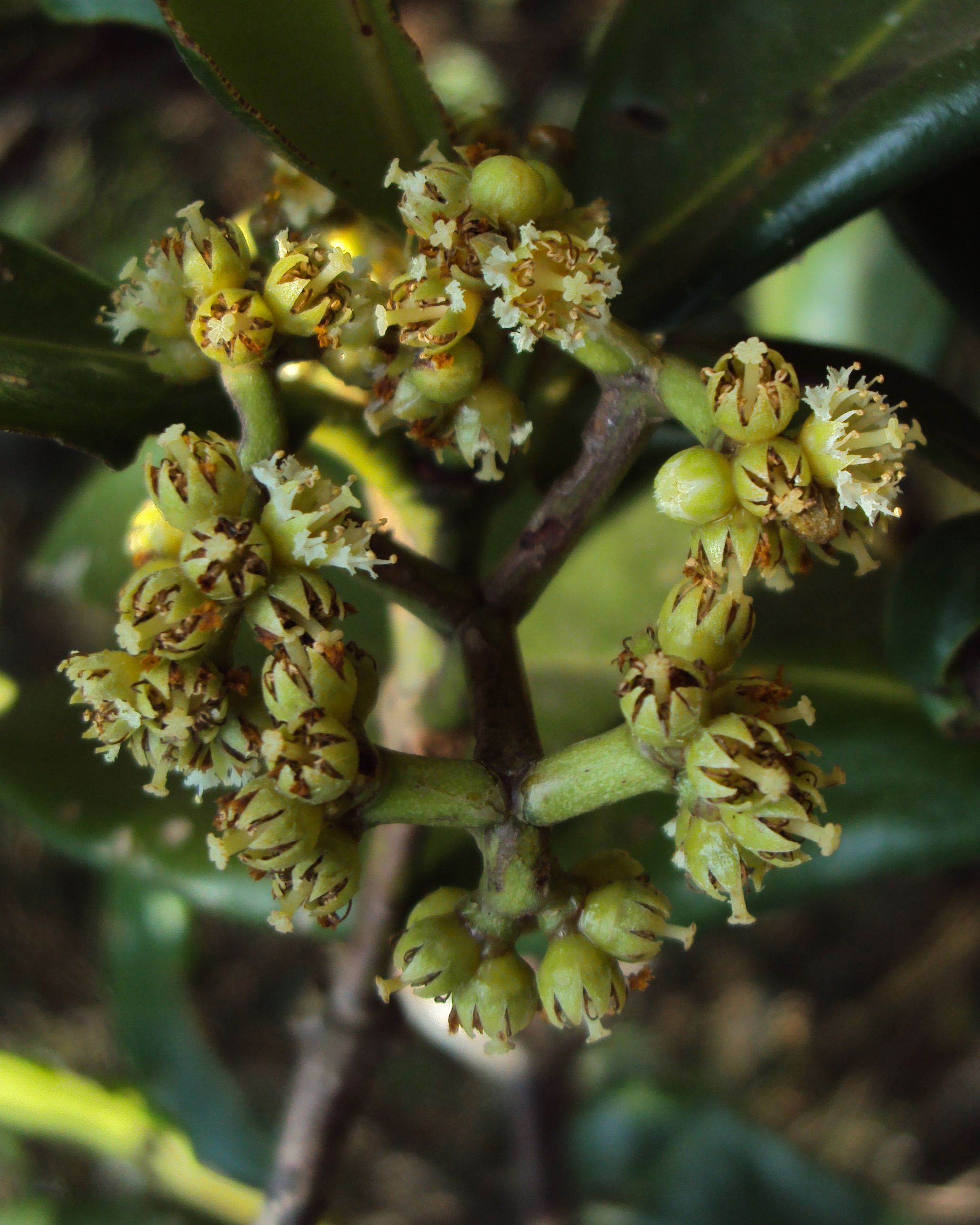 Carallia brachiata